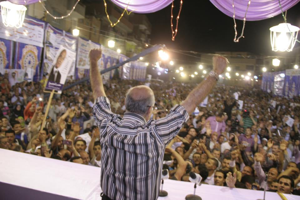 Ahmed Shafik rally